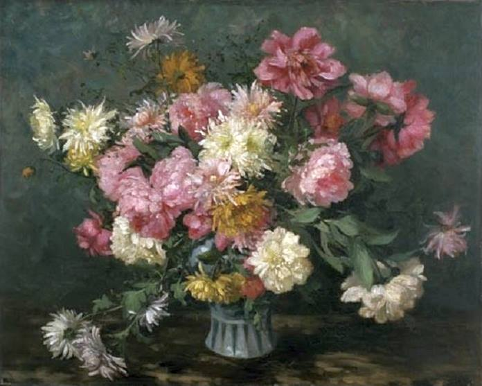 Still life of chrysanthemums and peonies painted by Belgian painter Emma De Vigne. 80.9 x 100.5 cm. Museum voor Schone Kunsten Gent (Museum of Fine Arts Ghent), Belgium.